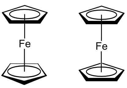 Staggered and eclipsed ferrocene